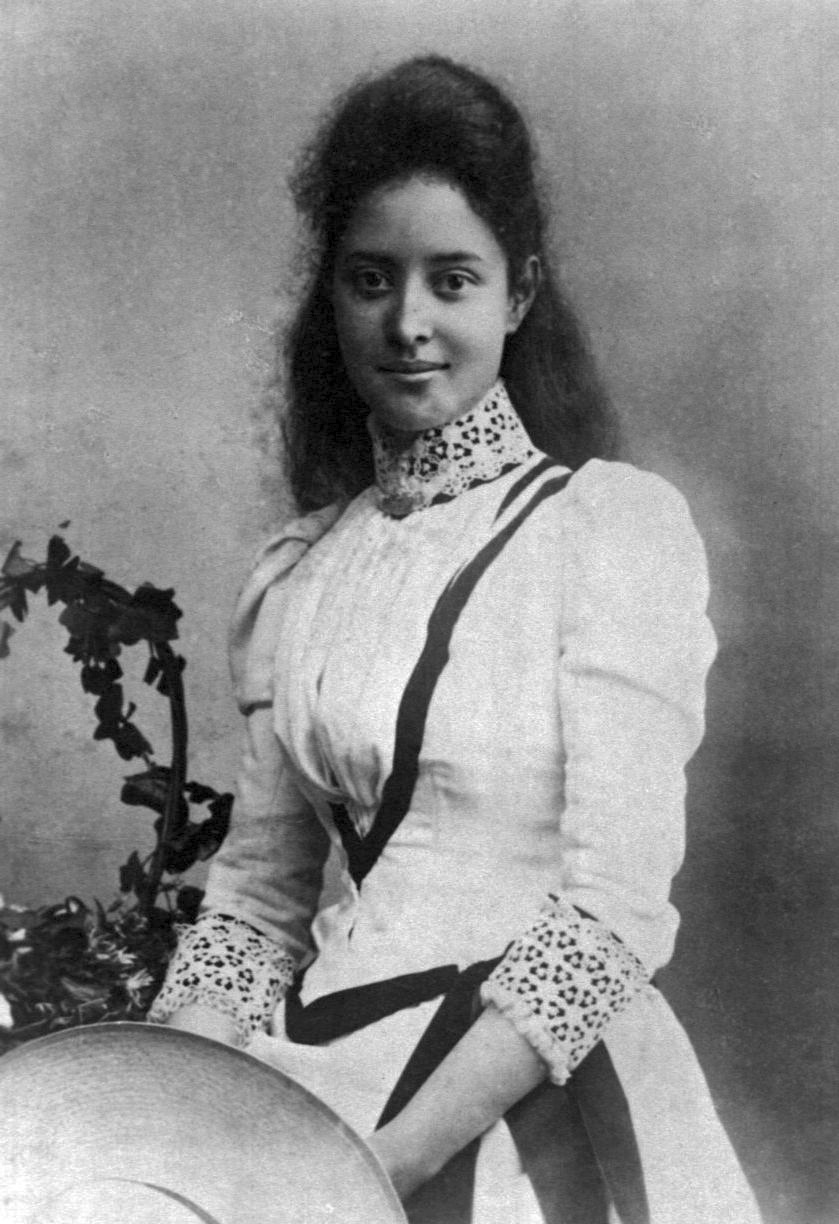 Princess Ka'iulani at 17 as she attended school at the prestigious Great Harrowden Hall in Northamptonshire.